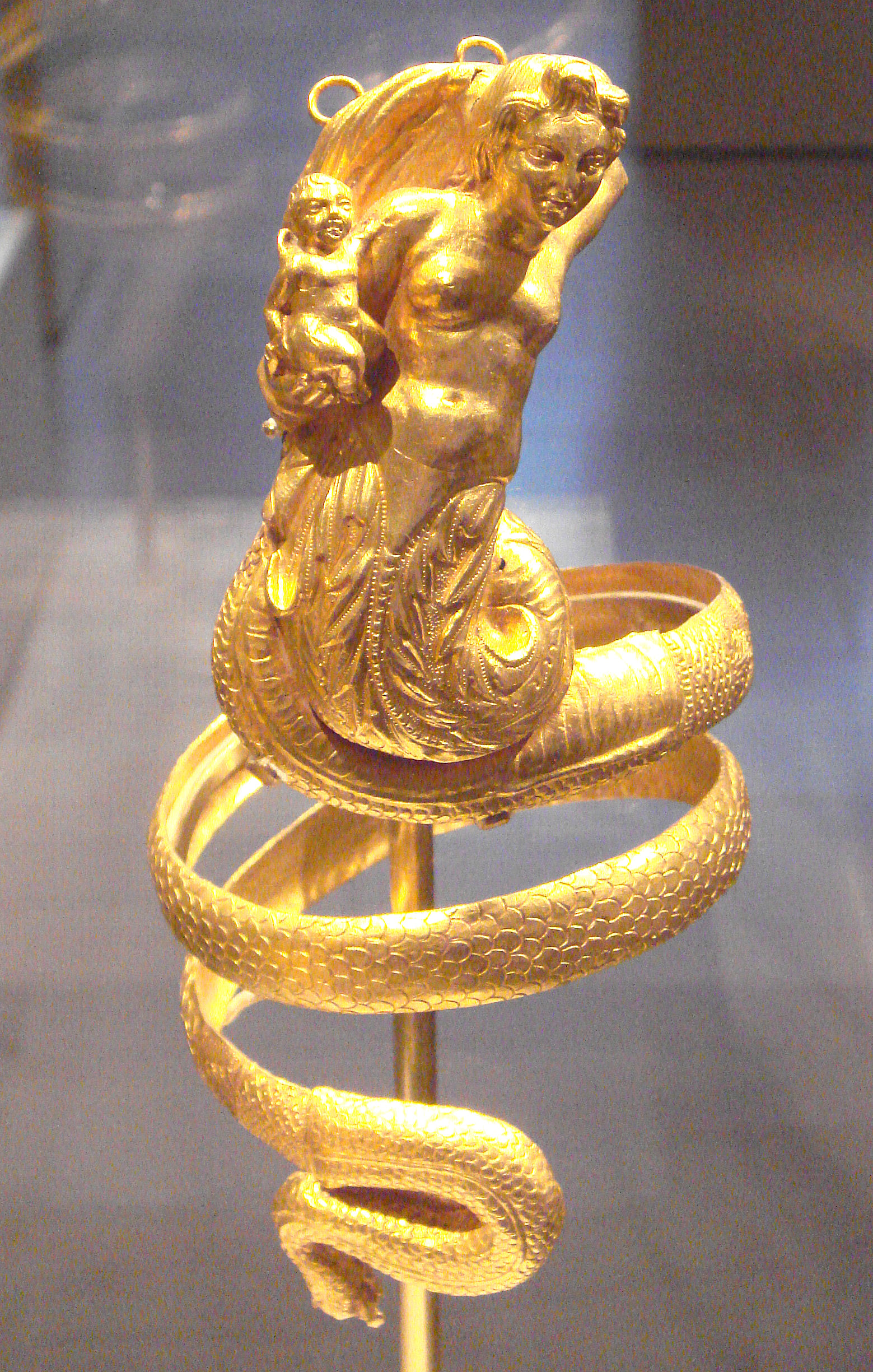 Armband with Triton holding a Putti, Greek 200 BCE